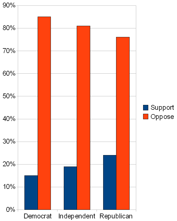 Public views of the Citizens United v. Federal Election Commission decision